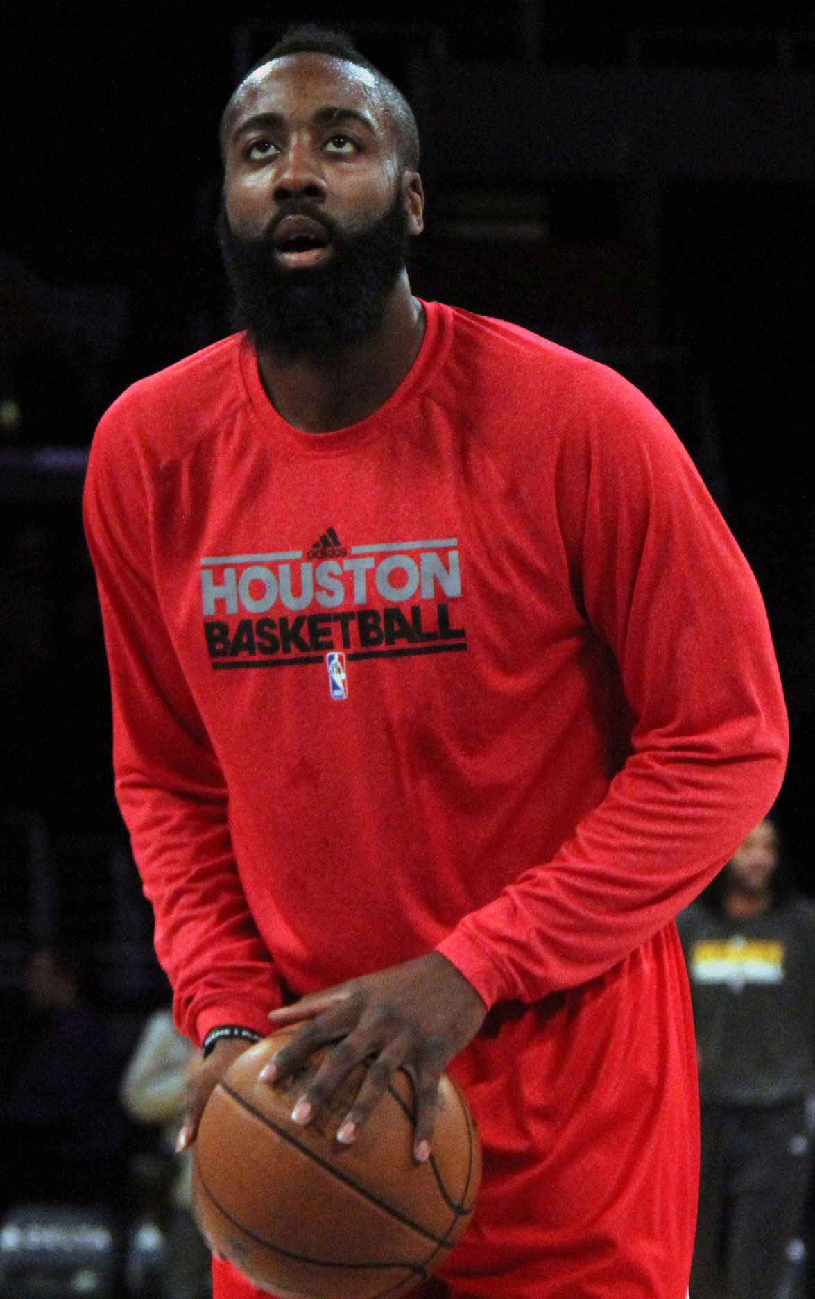 Professional basketball player James Harden